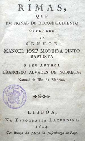 Picture if the cover of the book "Rimas, printed in 1804, from the portuguese poet Francisco Alvares de Nóbrega.